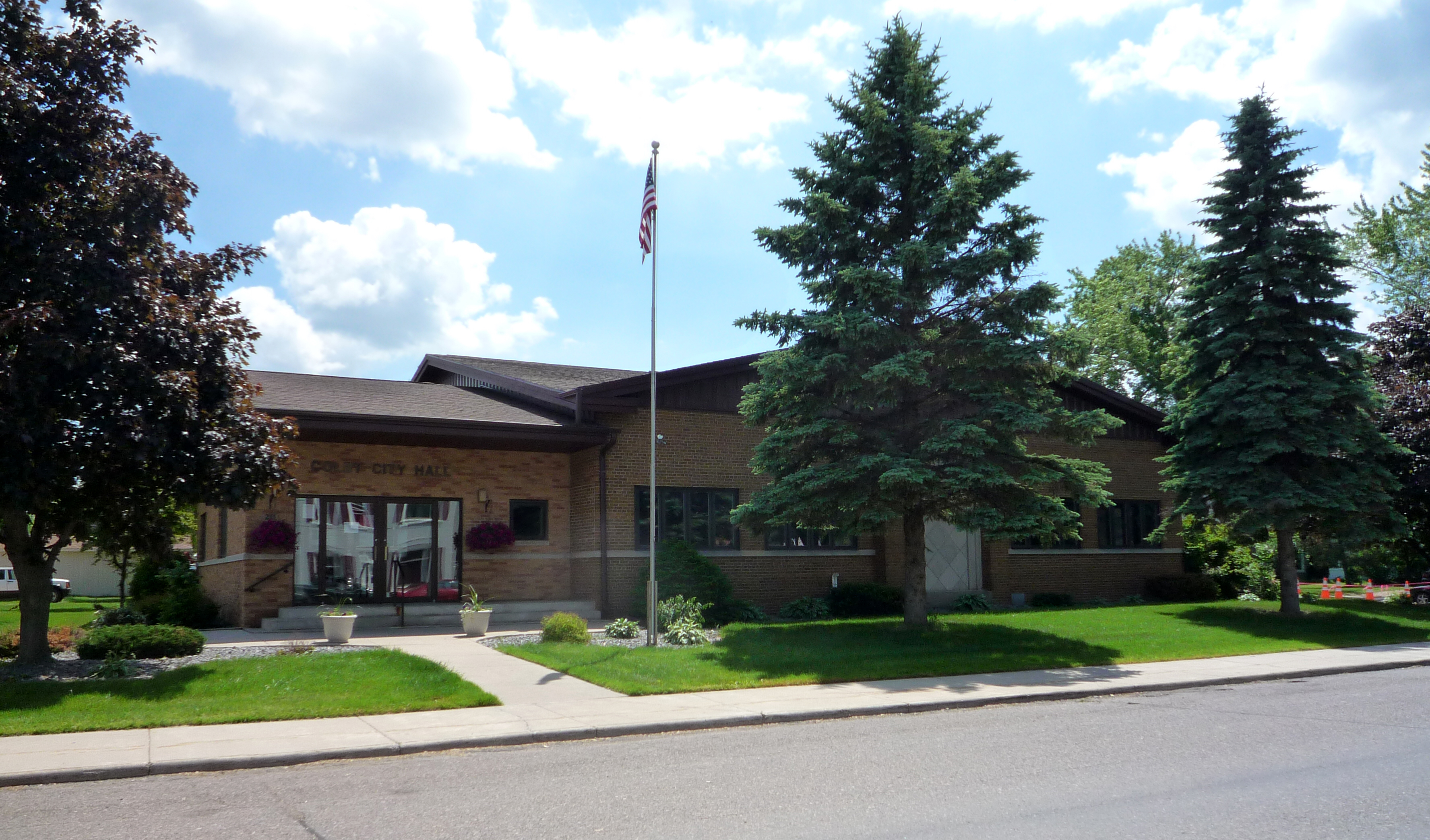 City Hall, Colby, Wisconsin, USA.